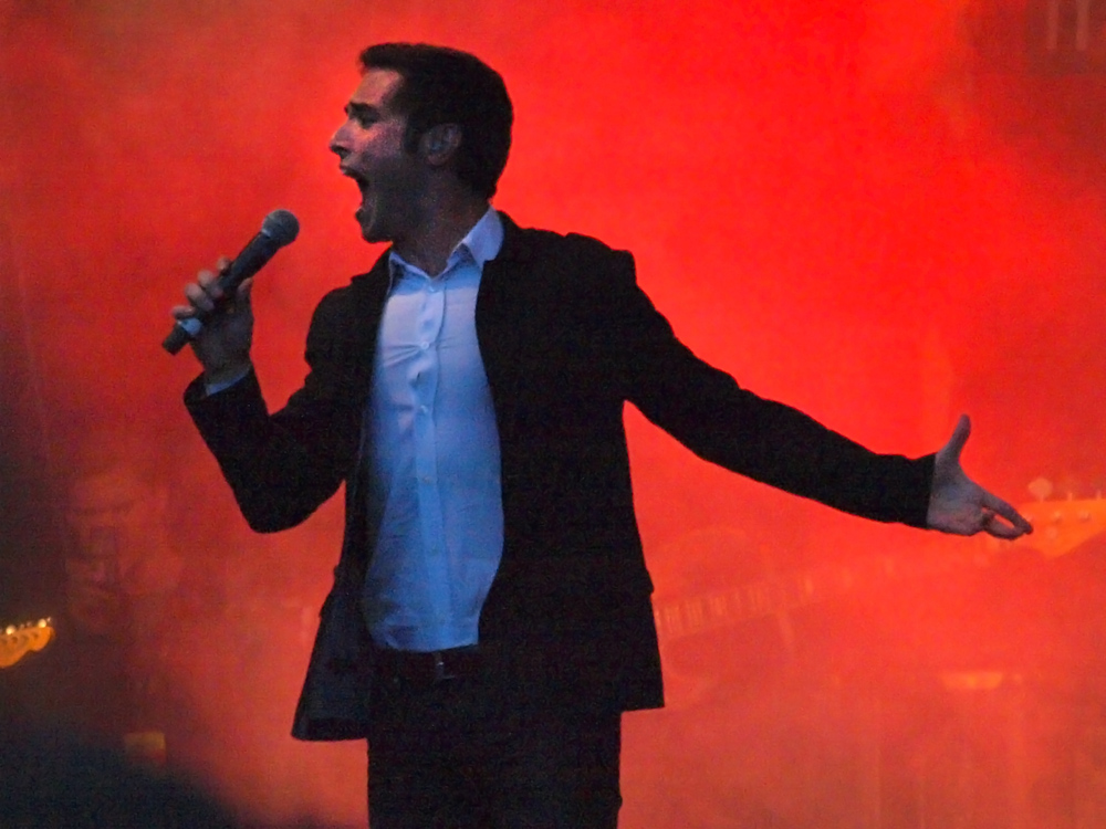 Swedish singer Måns Zelmerlöw performing in Falun, Sweden.